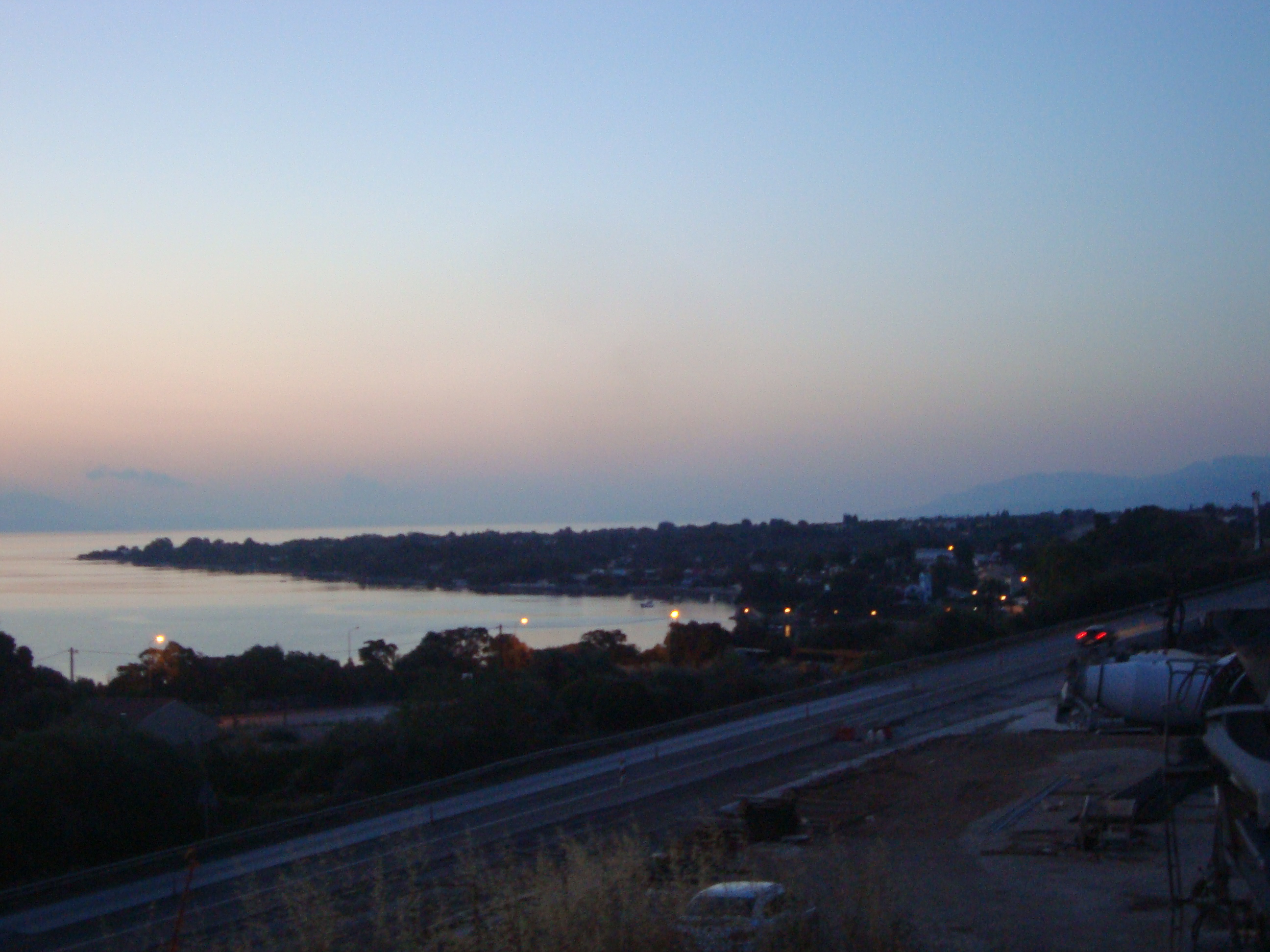 Labiri village, Achaia, Greece